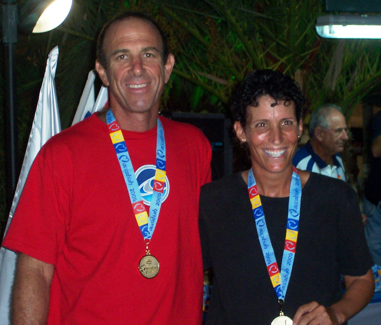 Israeli Tennis players Ilana Berger and Shlomo Glickstein winning the gold in the Maccabia 2005